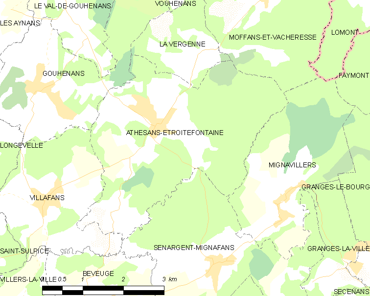 Map of French municipality